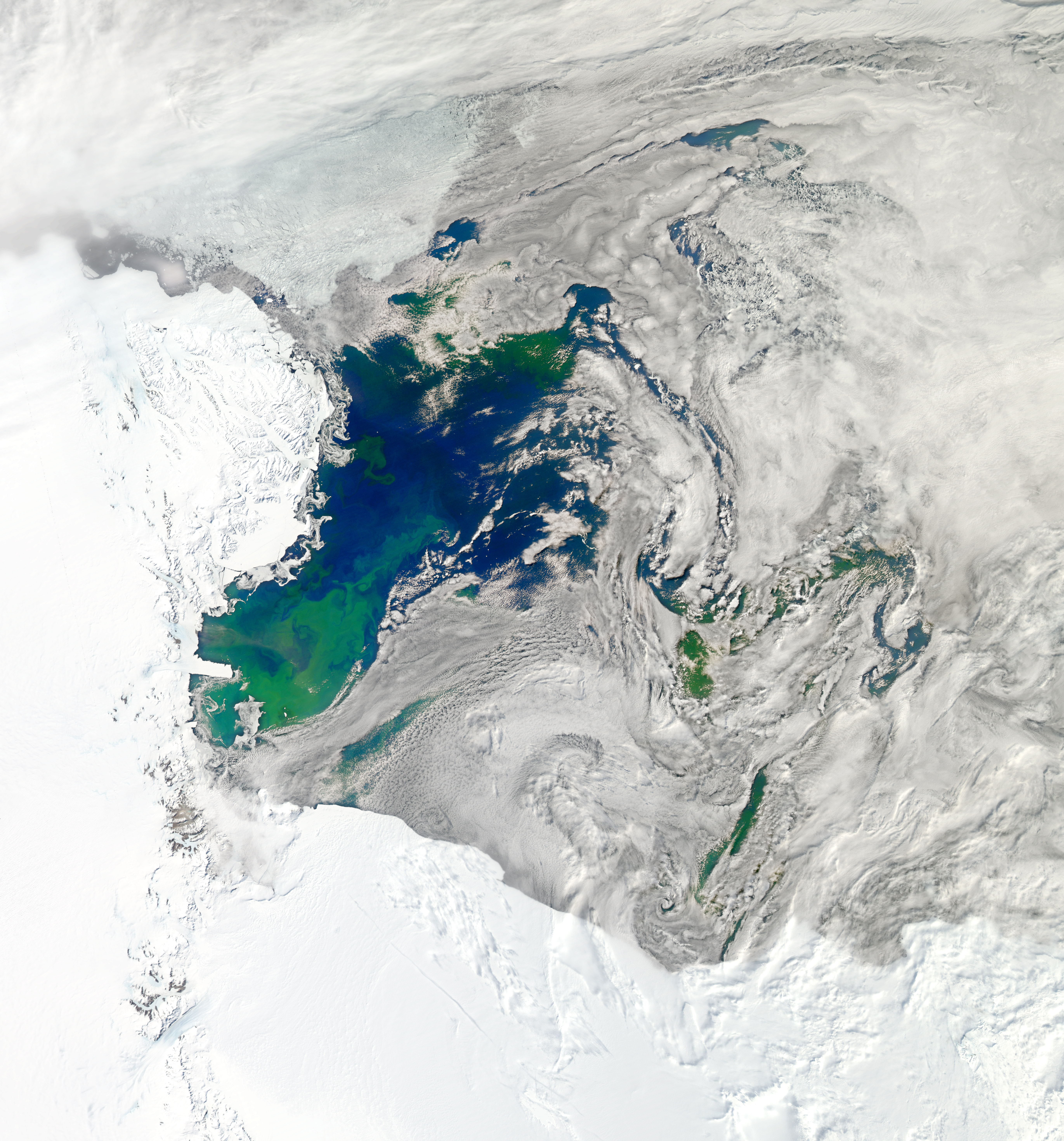 This true-colour image captures a bloom in the Ross Sea.